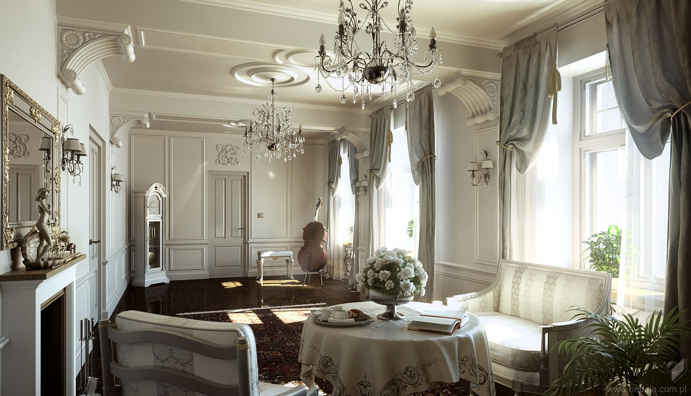 This render has been made by Marcin Jastrzebski using fryrender.